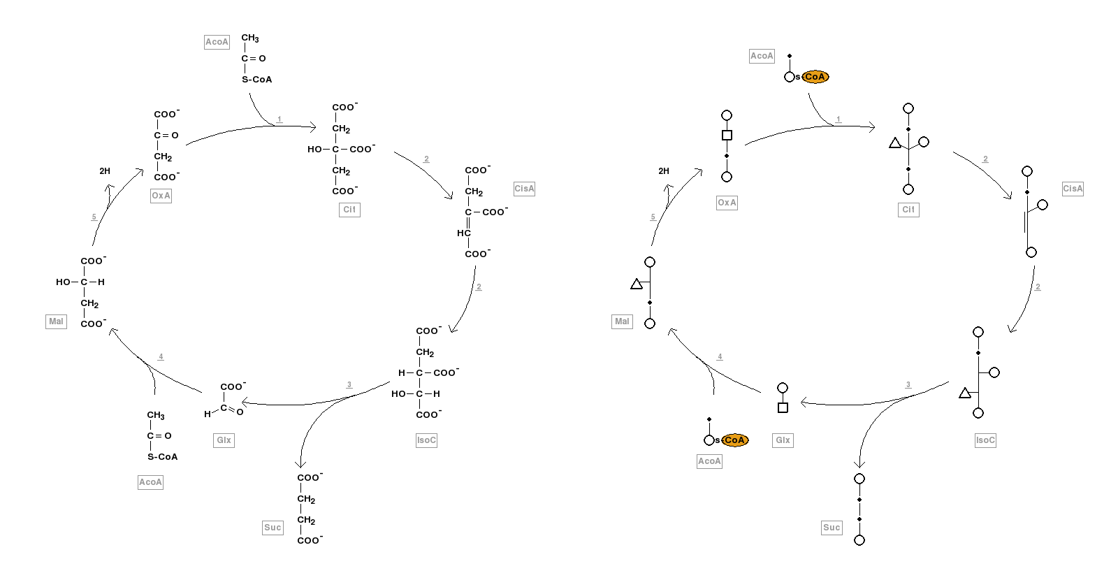 Glyolylate cycle components using Fischer representation comparing to polygonal model. The last form is easier and faster to read and write, and shows with clarity each change of the intermediates in the reactions.